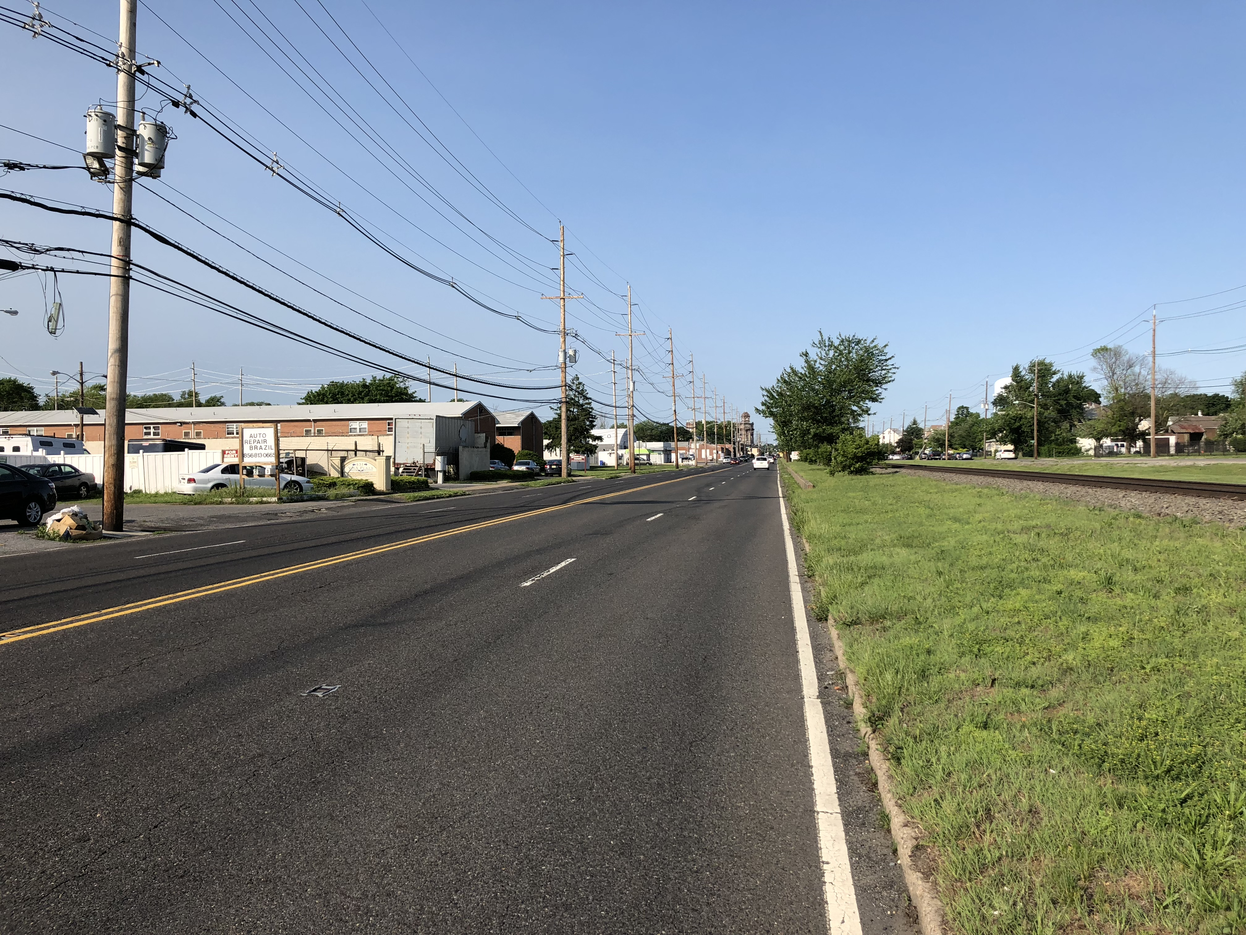 View north along Burlington County Route 543 (Saint Mihiel Drive) at Pulaski Avenue in Riverside Township, Burlington County, New Jersey